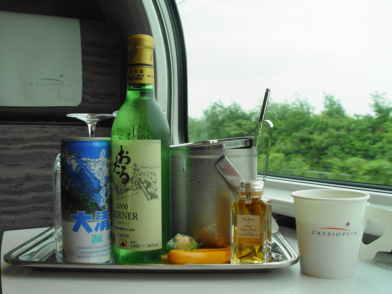 Cassiopeia (train) welcome drink.